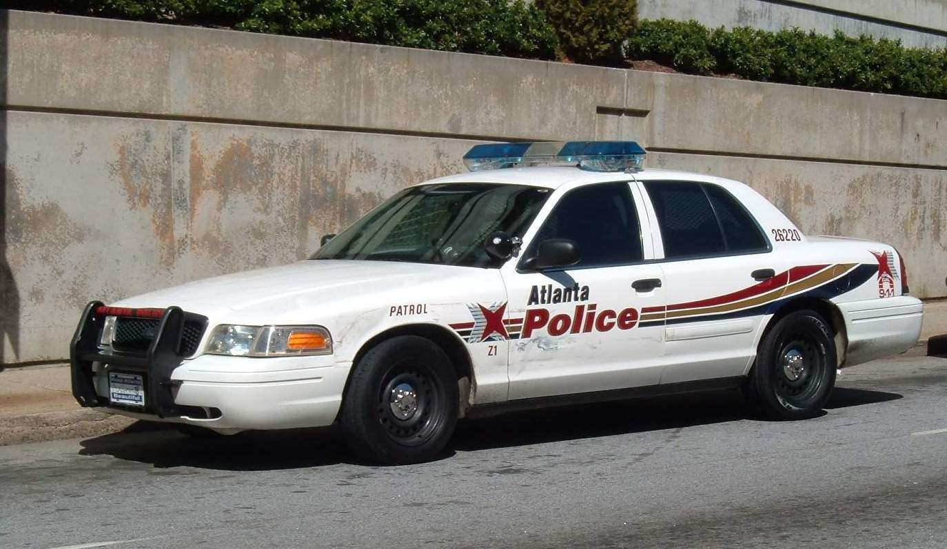 2,000 views on 6th March 2011 1,000 views on 5th June 2009 FCV - newest graphics